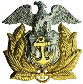 Image was extracted from the Flying Tigers Army/Navy Surplus website at